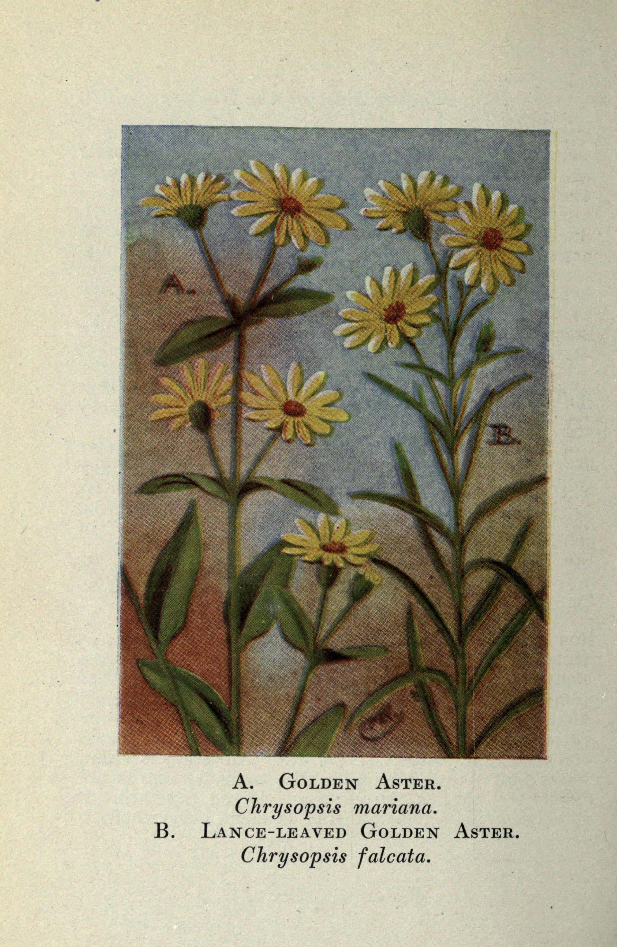 A. GOLDEN ASTER. Chrysopsis mariana. B. LANCE-LEAVED GOLDEN ASTER. Chrysopsis falcata.